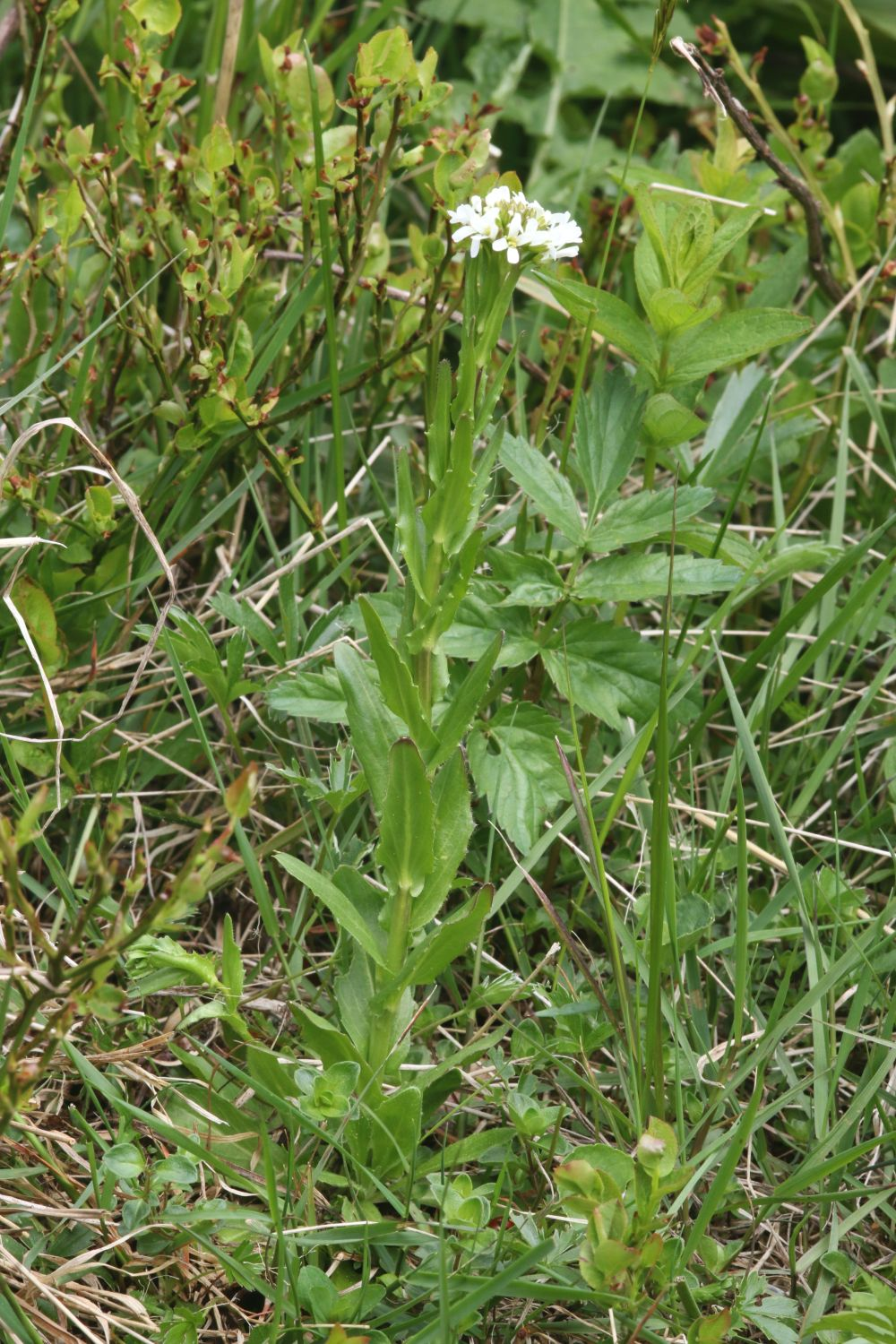 Flowering Arabis sudetica (A. hirsuta agg.), Velká Kotelní jáma, Krkonoše Mountains, Czech Republic